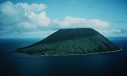 Aerial view of Asuncion Island in the Northern Mariana Islands